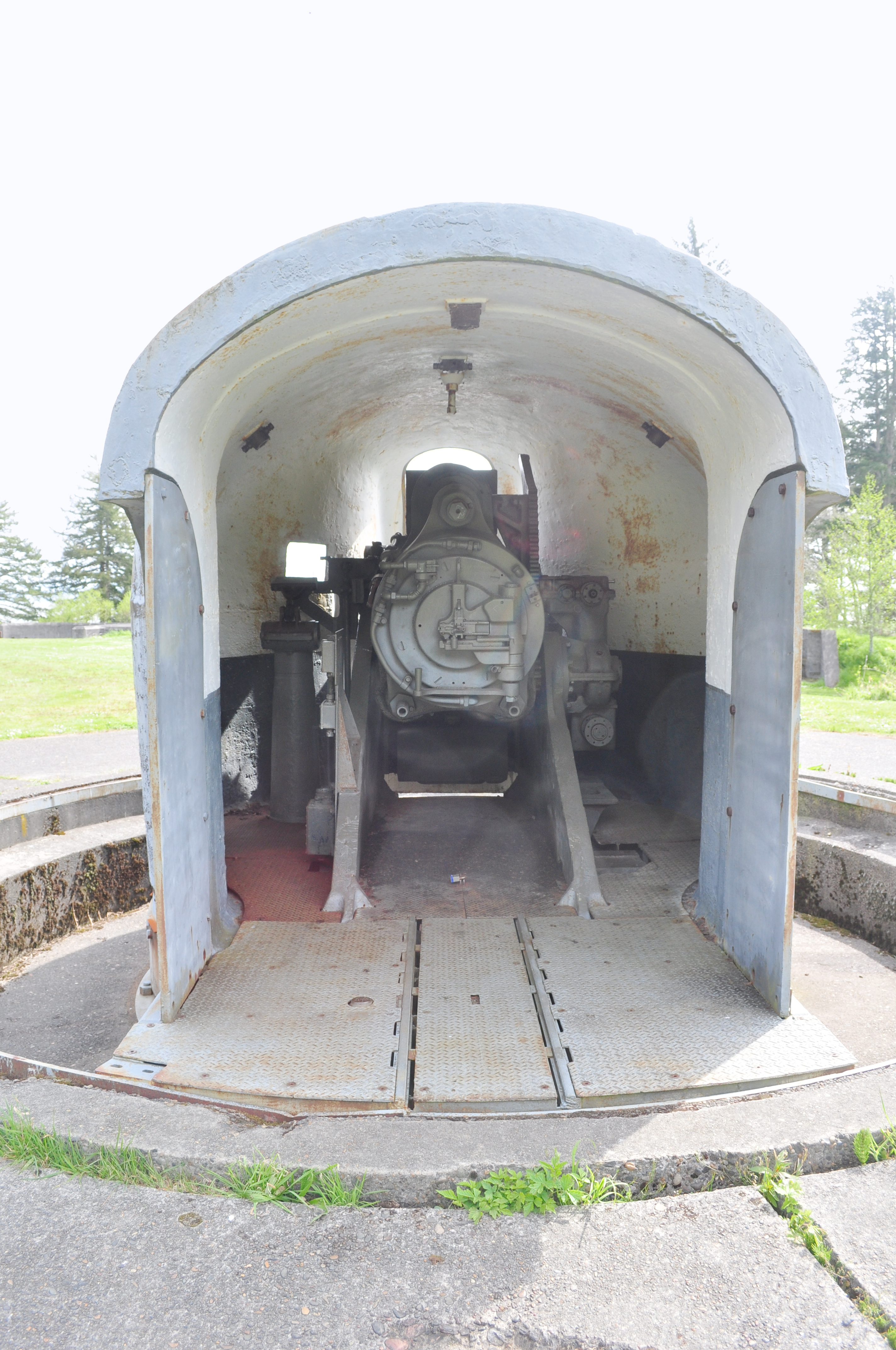 One of the guns of Battery 246, Fort Columbia, Washington, U.S.